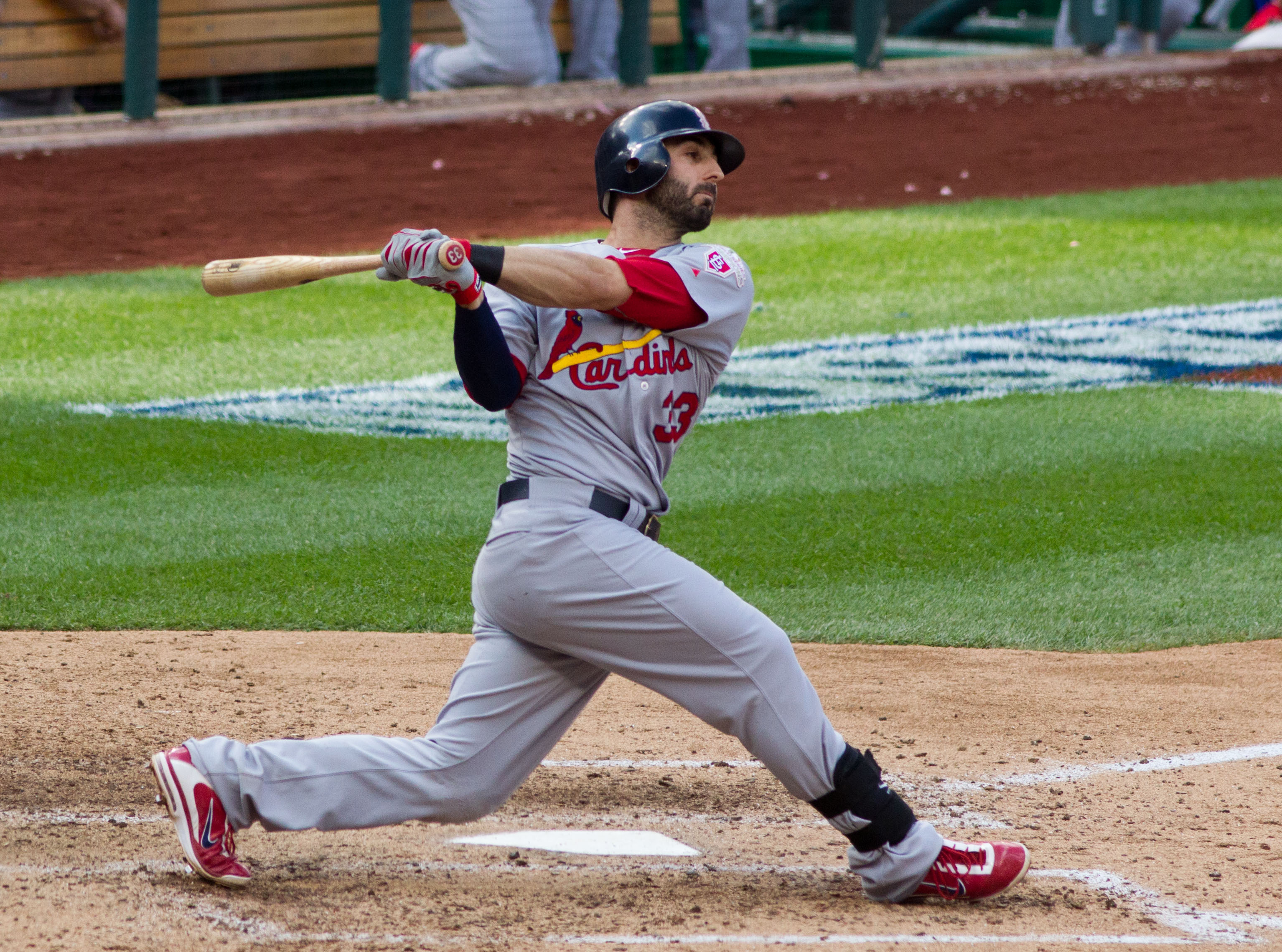 Daniel Descalso batting in Game 3 of the National League Division Series, St. Louis at Washington, October 10, 2012.